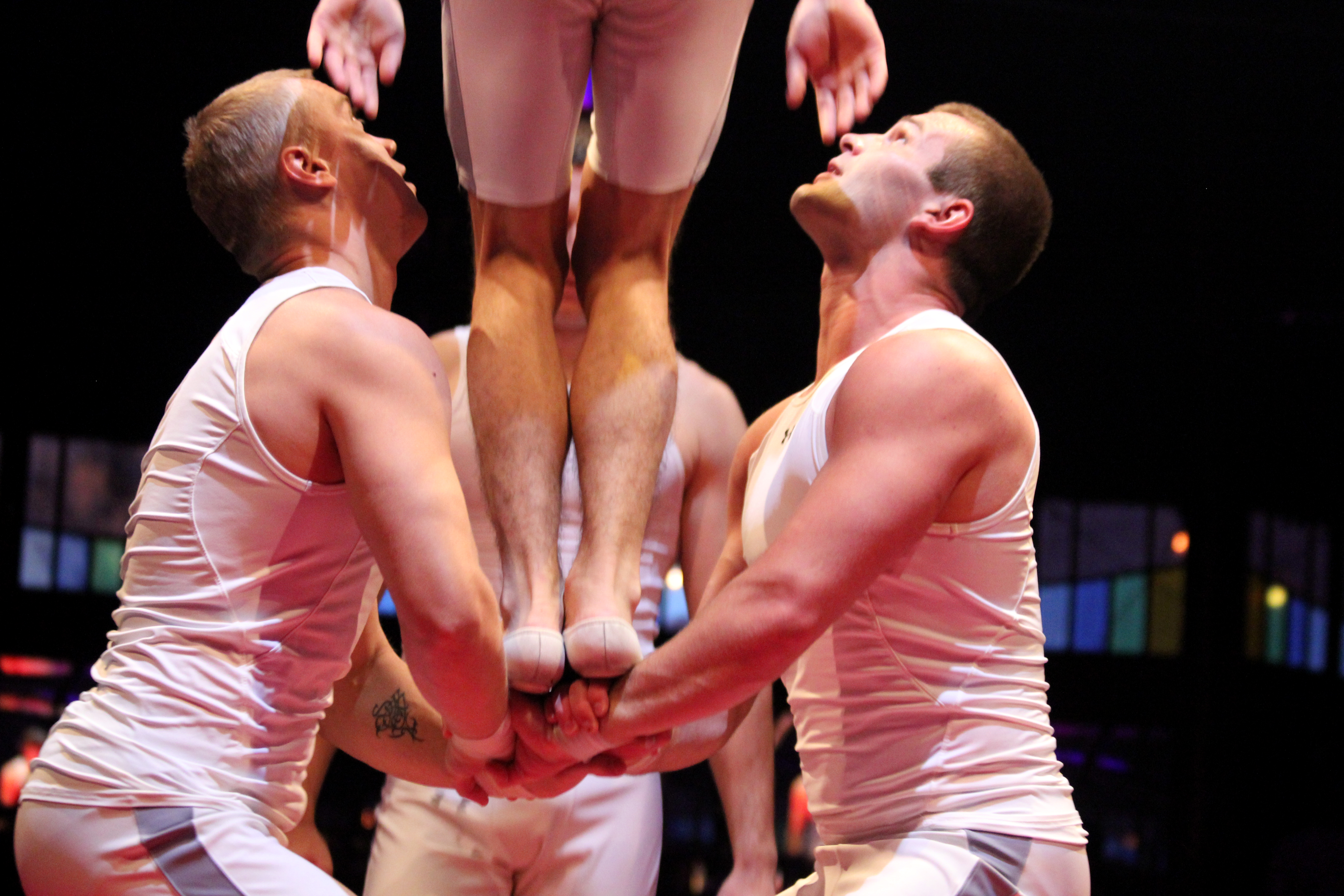 The all-male cheerleader team